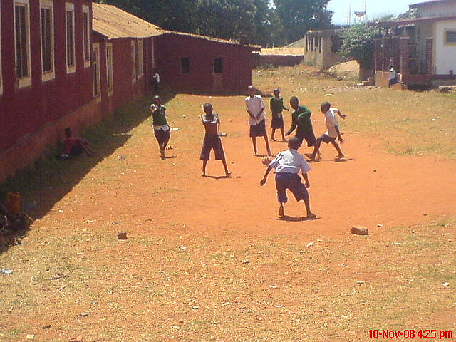 School children, playing at school yard in Songea, Tanzania